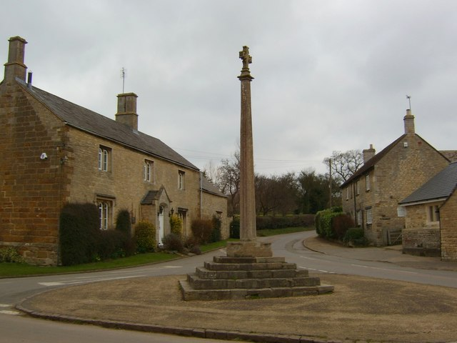 Market cross in Harringworth, Northamptonshire, with Cross Farmhouse on the left